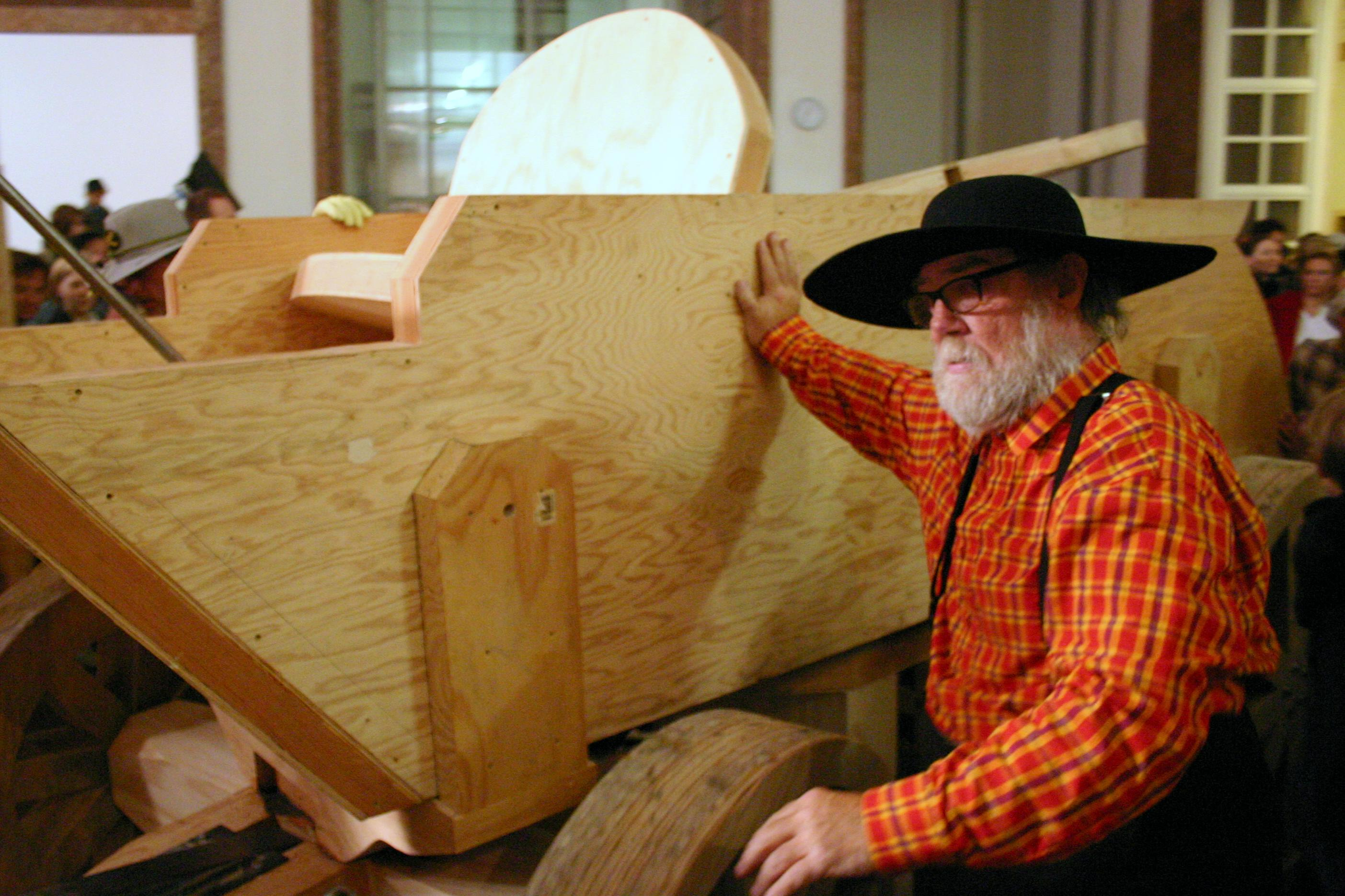 Paul McCarthy at the Westernparade, a parody parade organized in 2005.